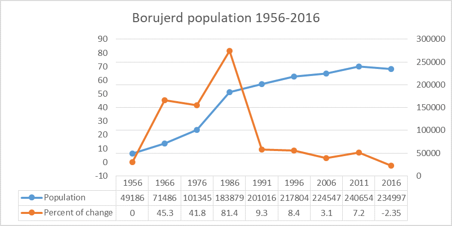 Borujerd population growth during 1956 - 2016